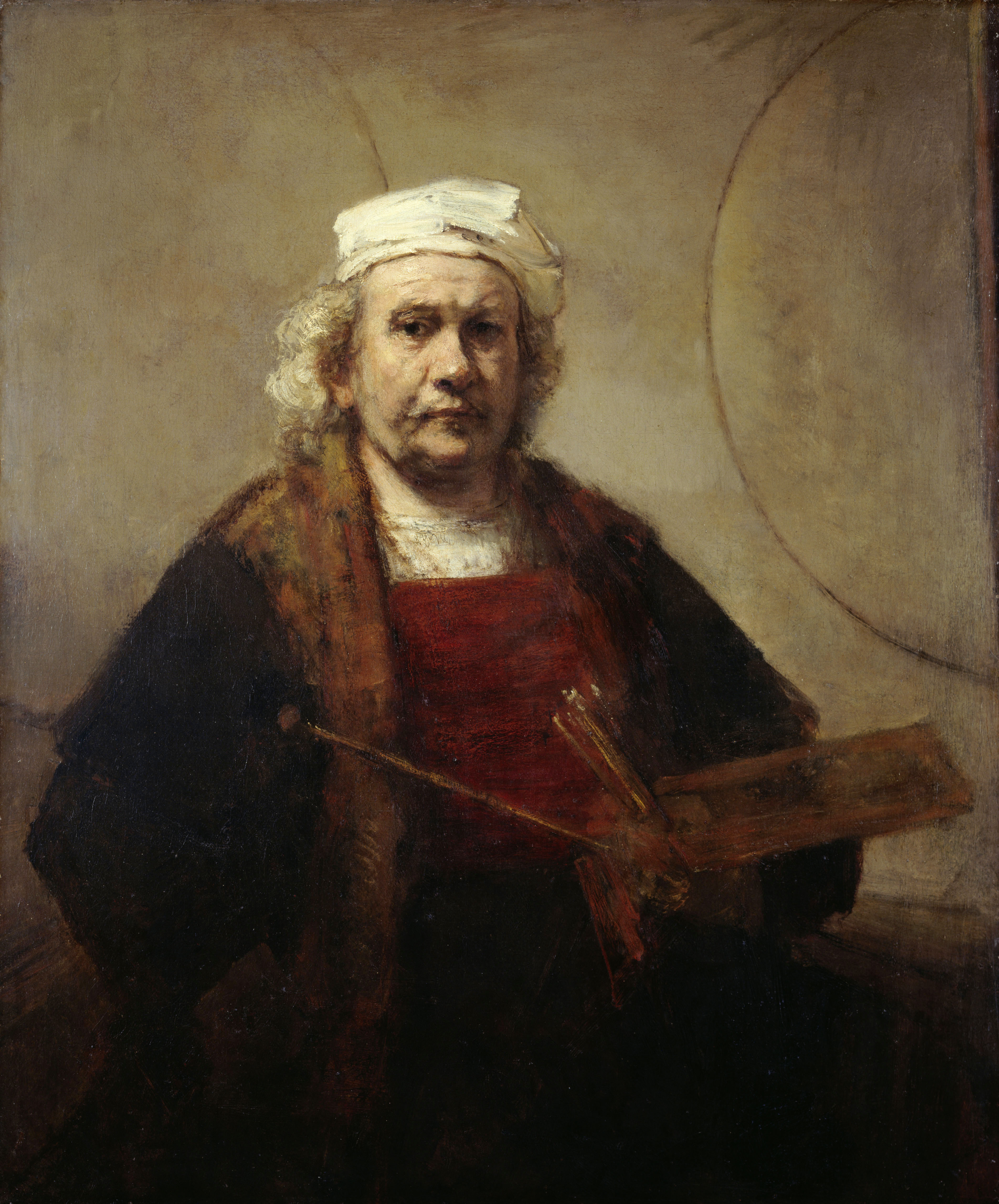 A late self portrait by Rembrandt, from the period when he had lost most of his fortune.